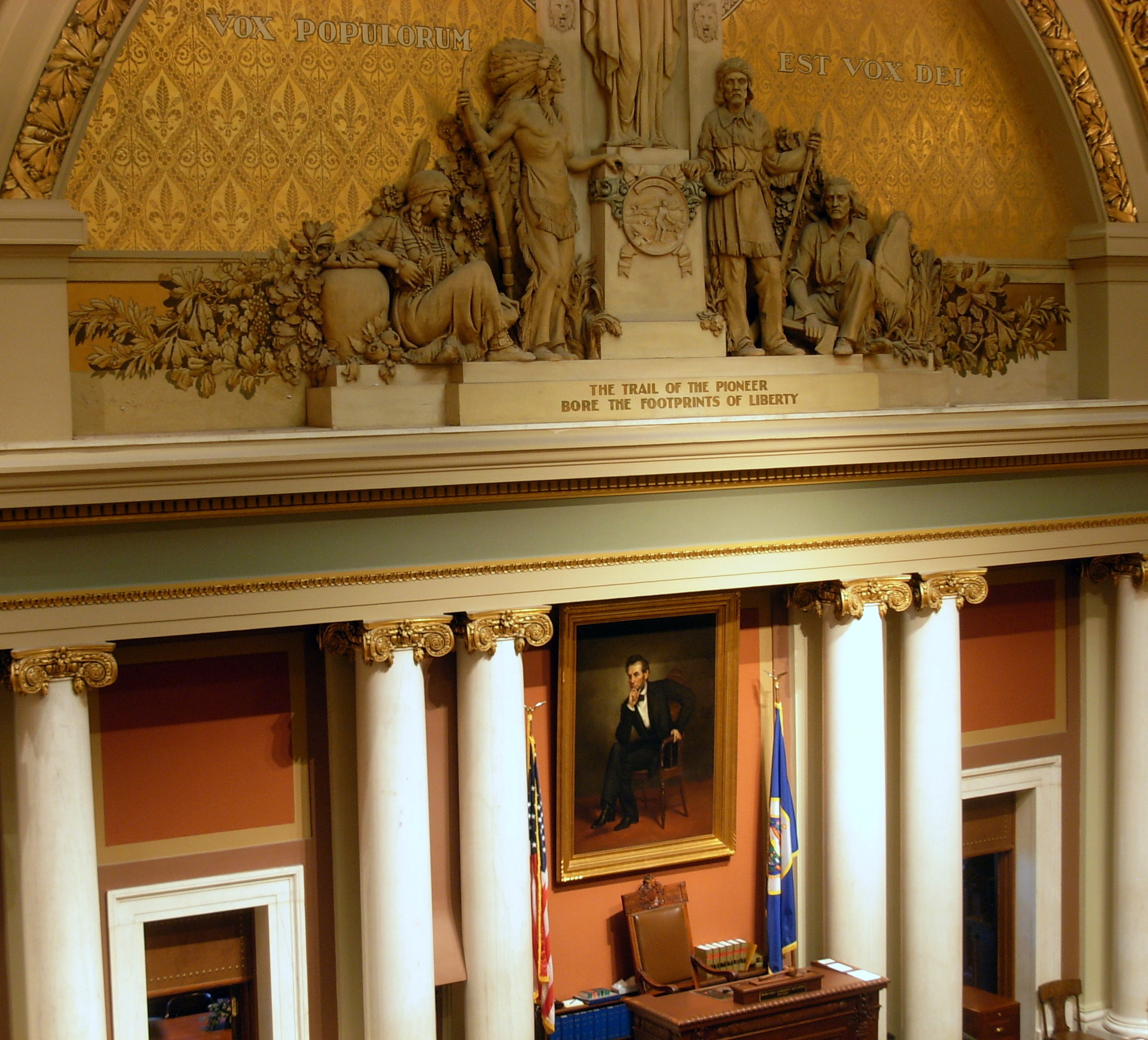 The Speaker's desk and front wall of the Minnesota State House of Representatives Chamber. Above the statuary by Charles (Carlo) Brioschi (1879-1941) are the Latin words "VOX POPULORUM EST VOX DEI" meaning The Voice of the People is the Voice of God. The inscription below says "The trail of the pioneer bore the footprints of liberty". The portrait between the flags is of Abraham Lincoln.